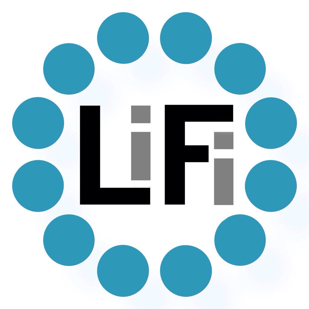 Li-Fi or more ligth fidelity